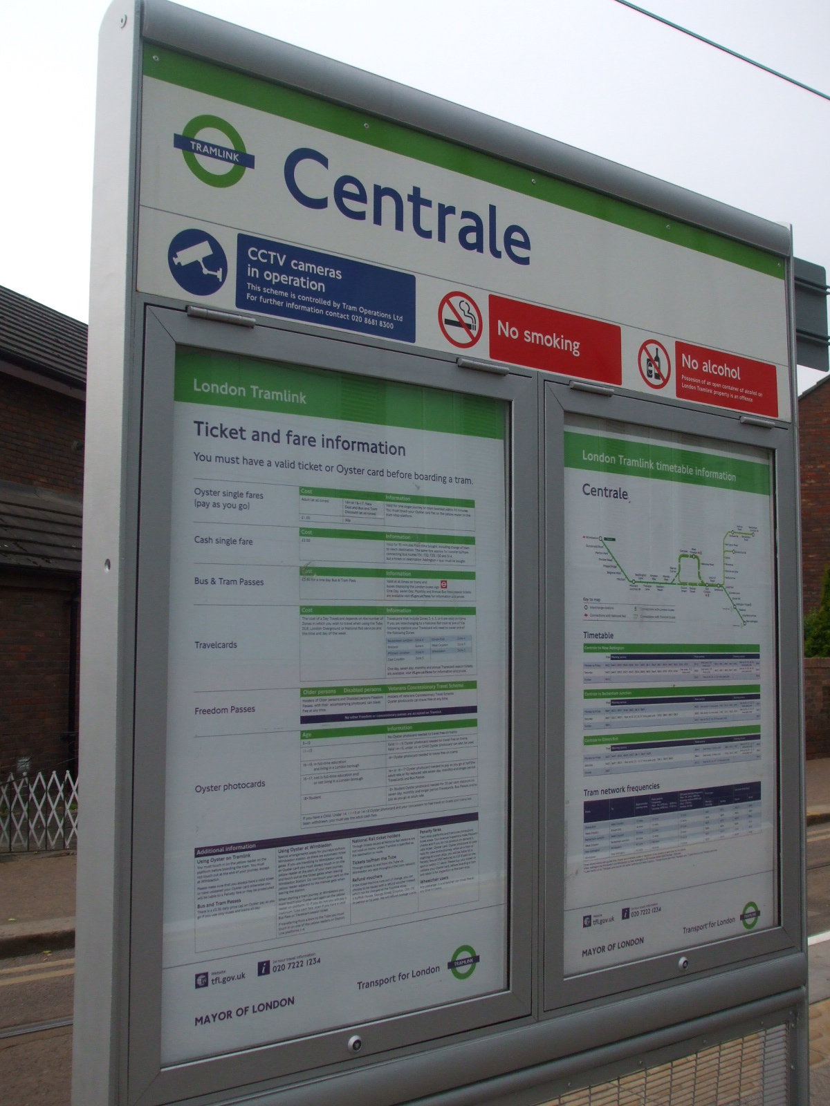 Centrale tram stop platform signage and information board.